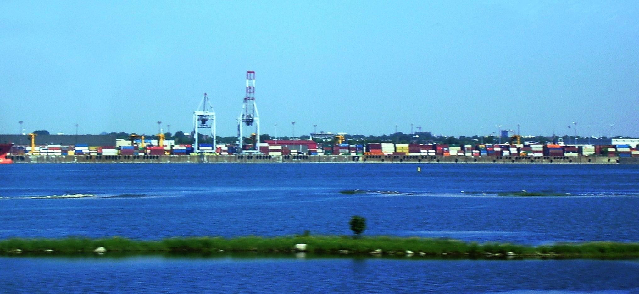 Panorama of Montreal's seaport.